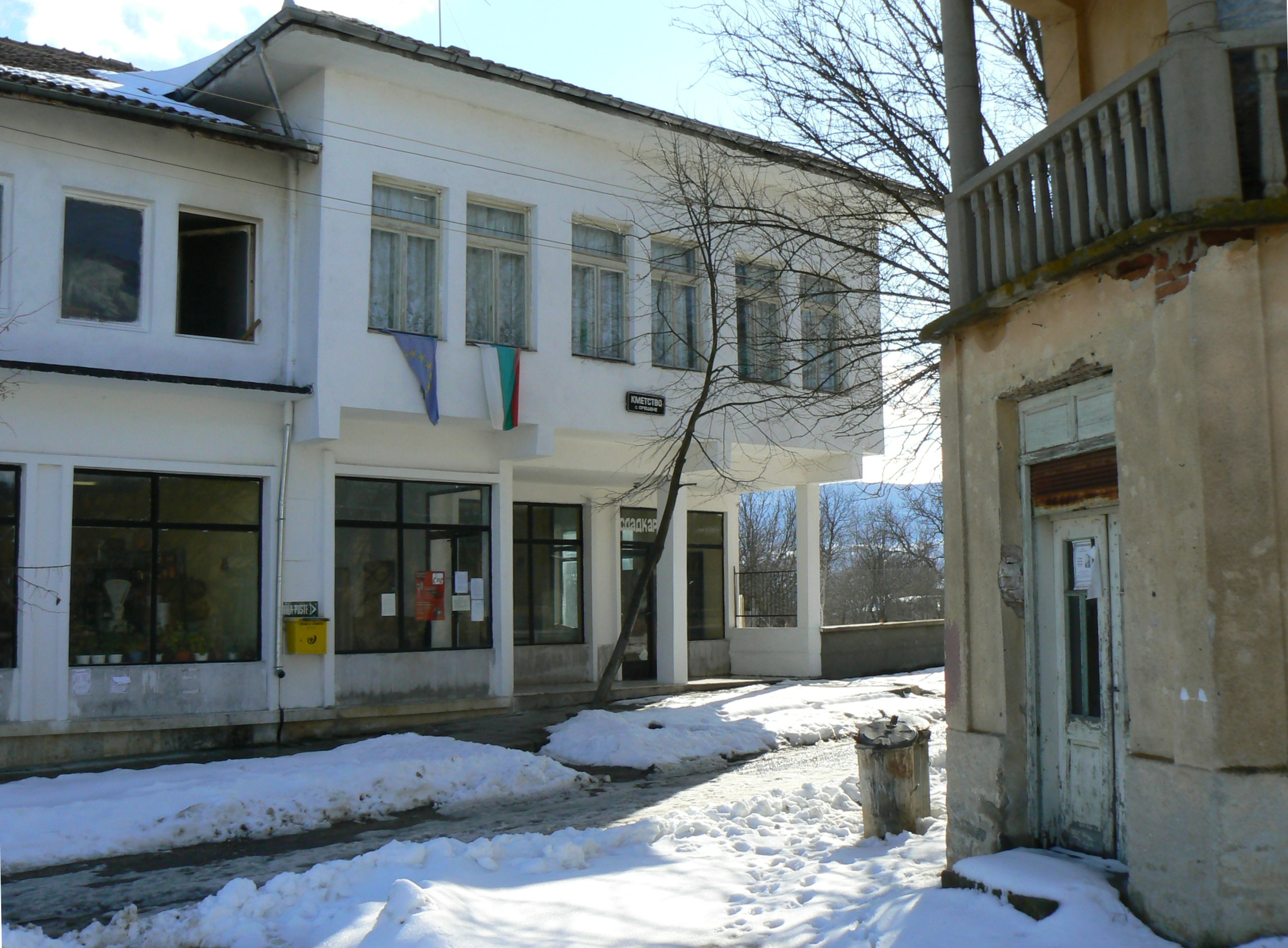 The mayors office of village Oreshene, Lovech District, Bulgaria